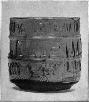 ROMAN GLASS CUP. With representation of a chariot race. Found at Colchester.